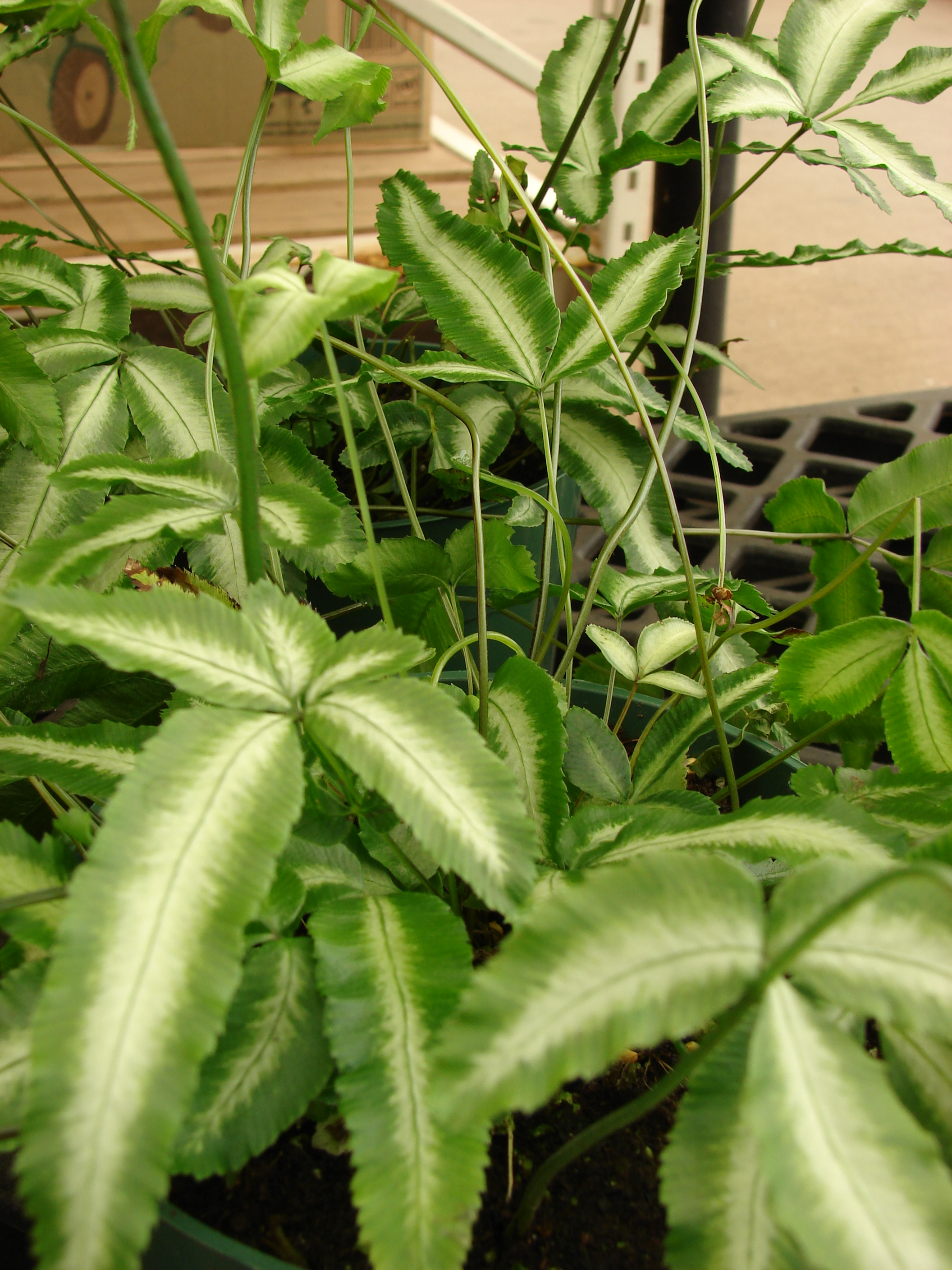 Pteris ensiformis (habit). Location: Maui, Walmart Kahului